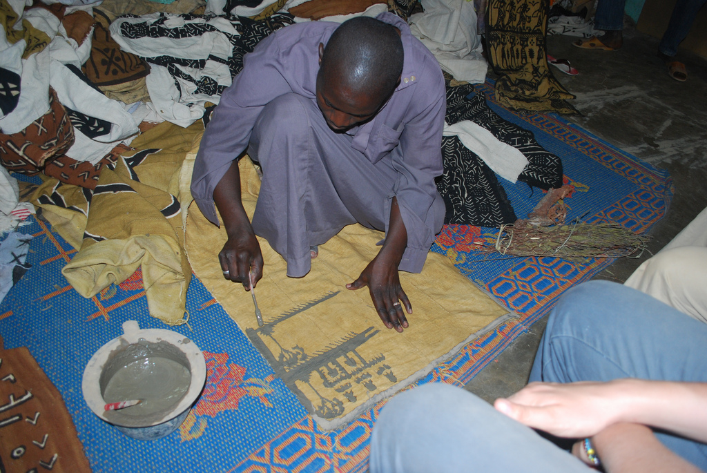 Textile painter in Djenne, Mali, Africa